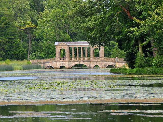 The Palladian Bridge, Stowe Seen across the Octagon Lake (no longer an octogon). The bridge was built in 1738 and is based on a similar one at Wilton House.